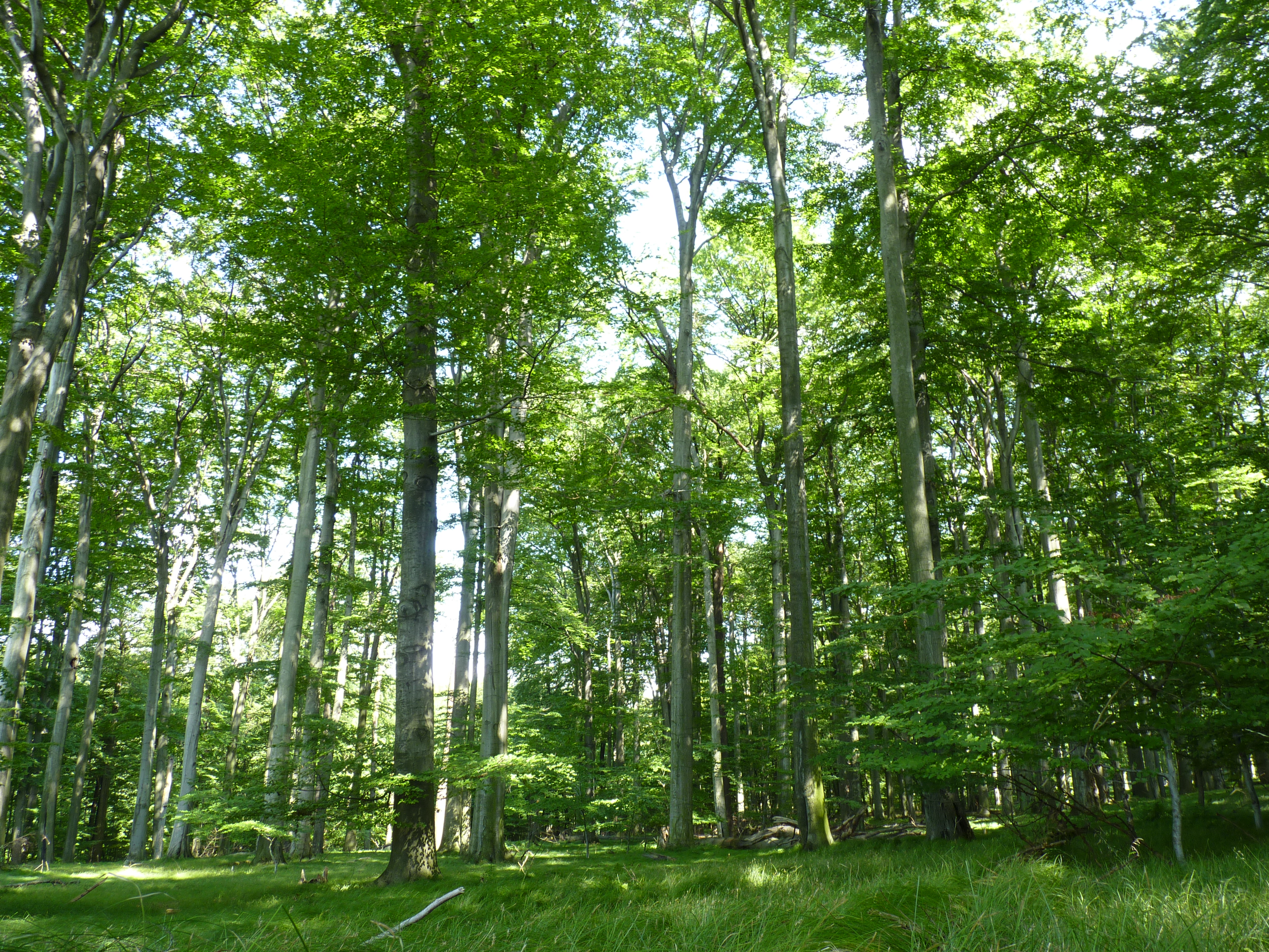 Nature reserve Černý les u Šilheřovic I. Opava District, Moravian-Silesian Region, Czech Republic